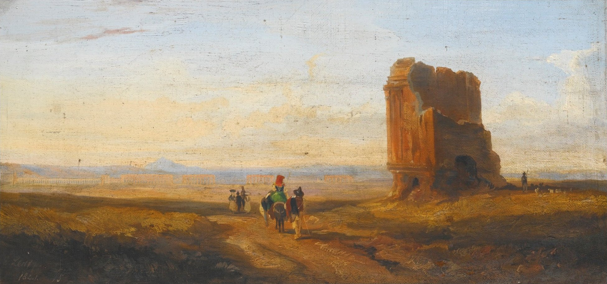 A View of the Roman Campagna with Travelers Passing a Ruined Brick Tomb, an Aqueduct in the Distance by Edward Lear, 1841, oil on canvas, 9 by 39.7 cm.